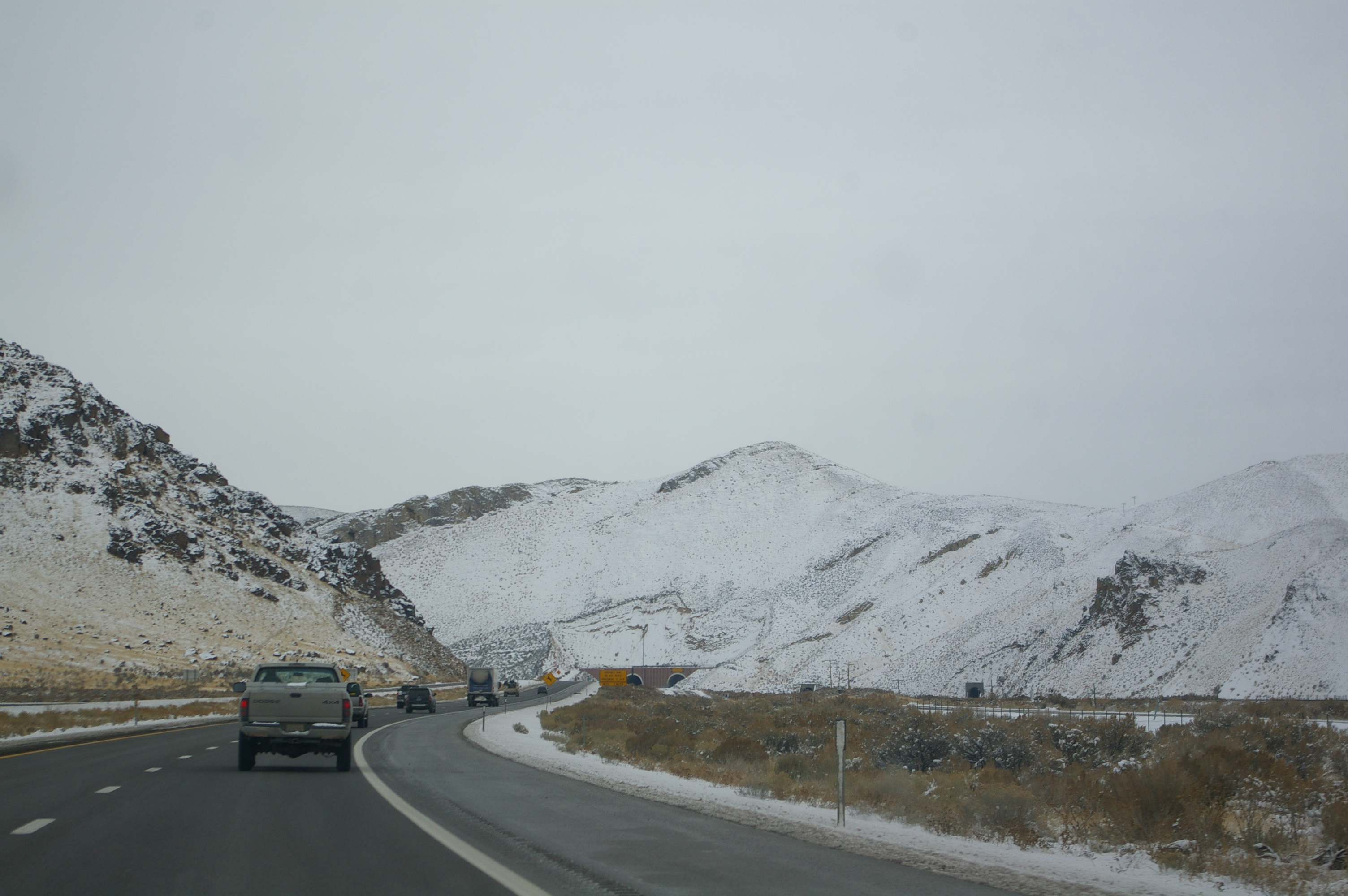 The Carlin Tunnel showing the bores that carry Interstate 80 and the Overland Route through the bends of the Humboldt River.